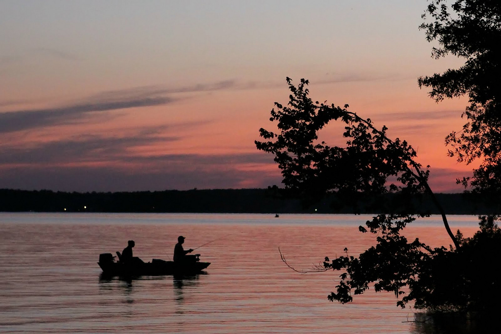 Silhouette of fisherman fishing on Caney Lake Resevoir in Louisiana at Jimmie Davis State Park.